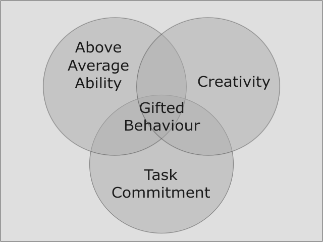 Dr.Joseph Renzulli's graph on gifted behavior